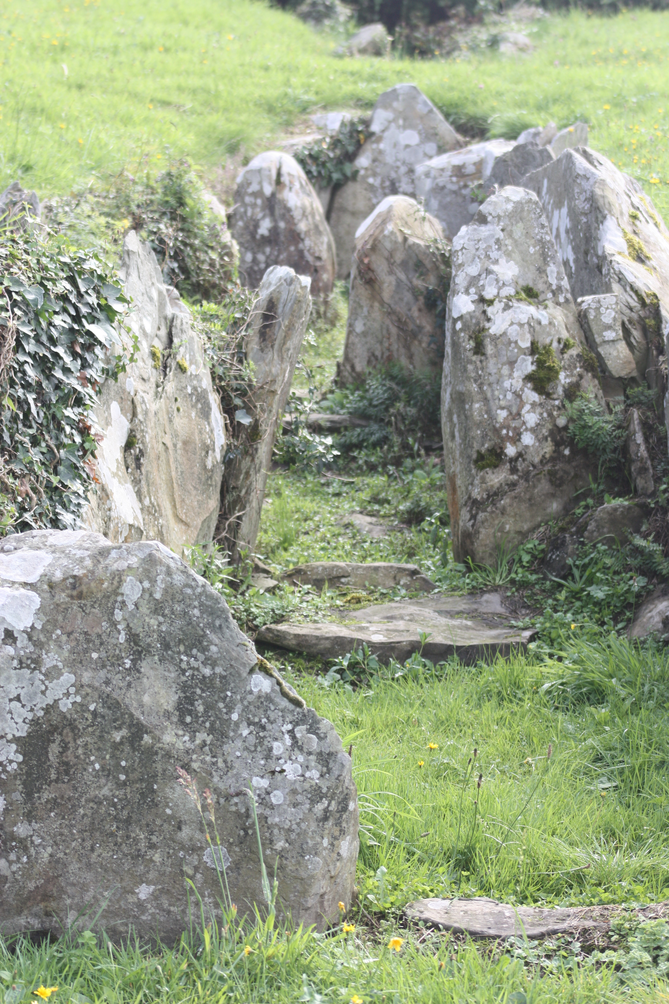 Audleystown Court Cairn, County Down, Northern Ireland, August 2009 (off the Audleystown Road near Strangford)